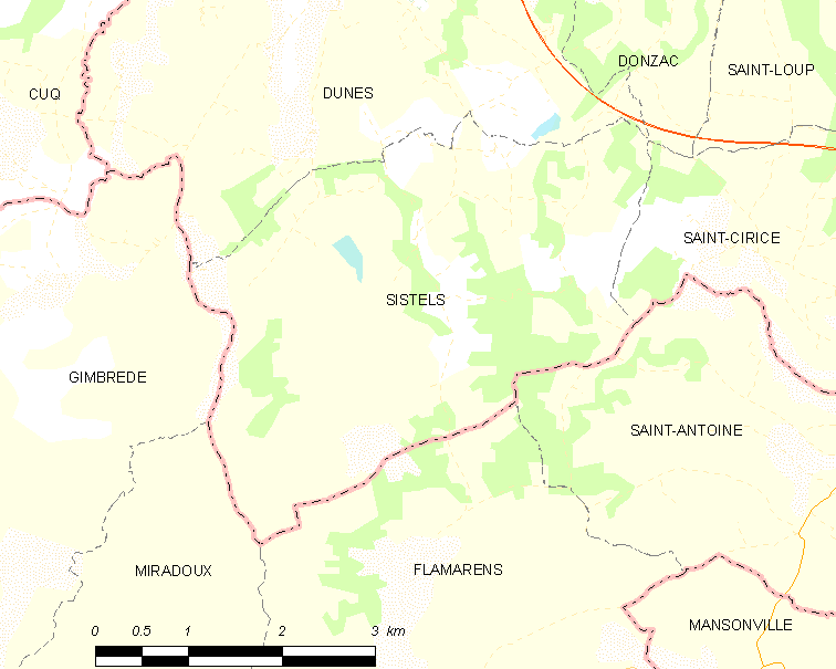 Map of French municipality Sistels